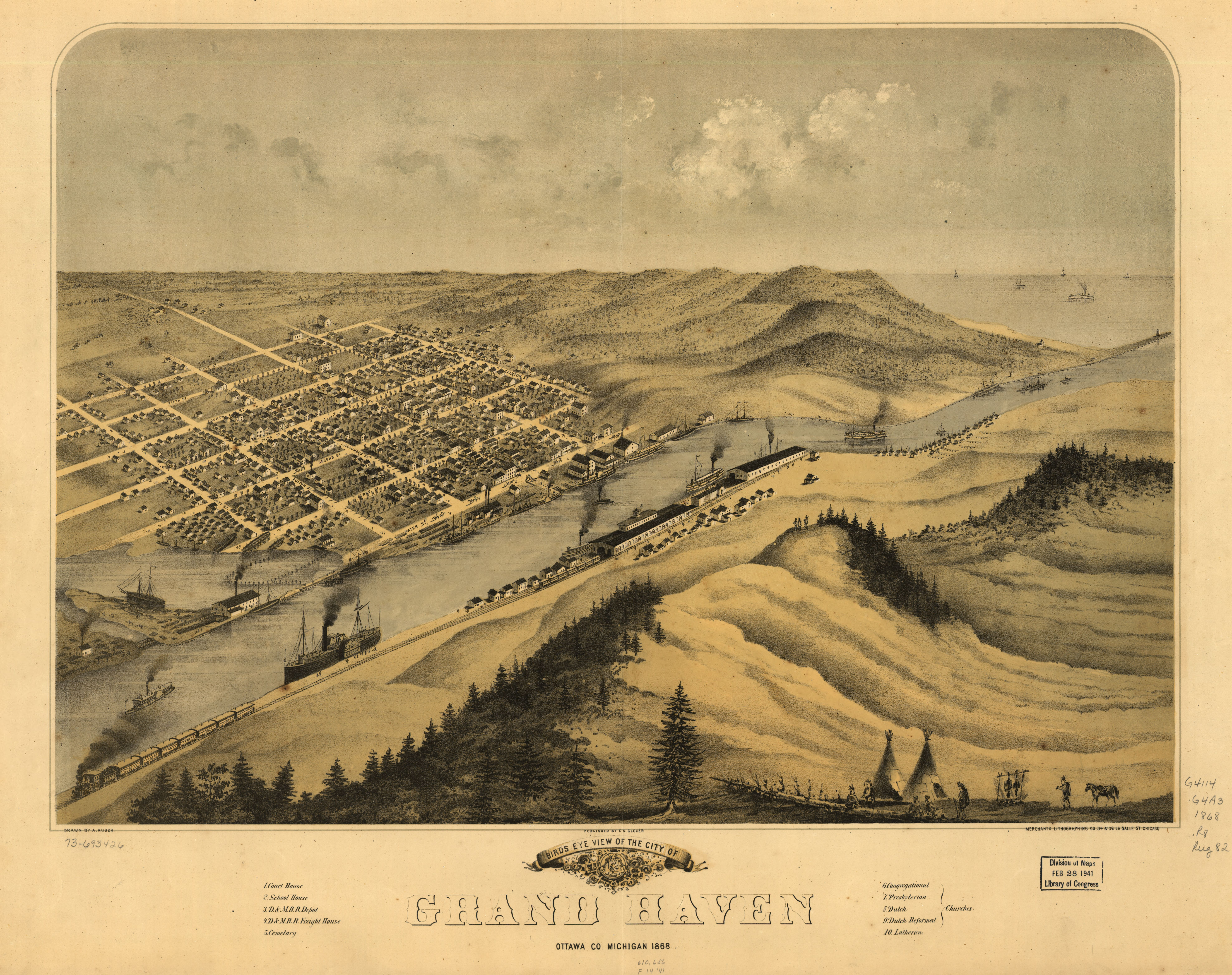 Perspective map not drawn to scale. LC Panoramic maps (2nd ed.), 348 Available also through the Library of Congress Web site as a raster image. Indexed for points of interest. Vault AACR2: 100; 651/1; 700/1; 710/2